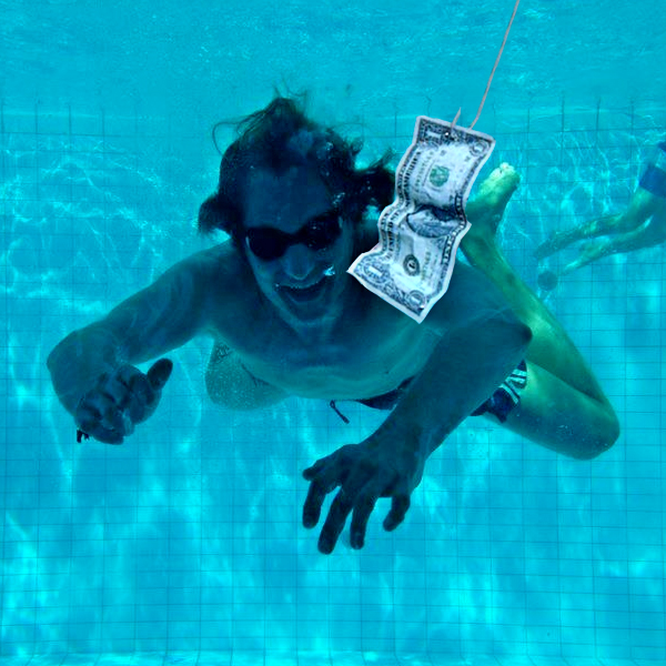 A spoof of the famous cover of Nirvana's 1991 album Nevermind (then with Spencer Elden as the model). Photo taken at Tøyenbadet, Oslo, Norway.